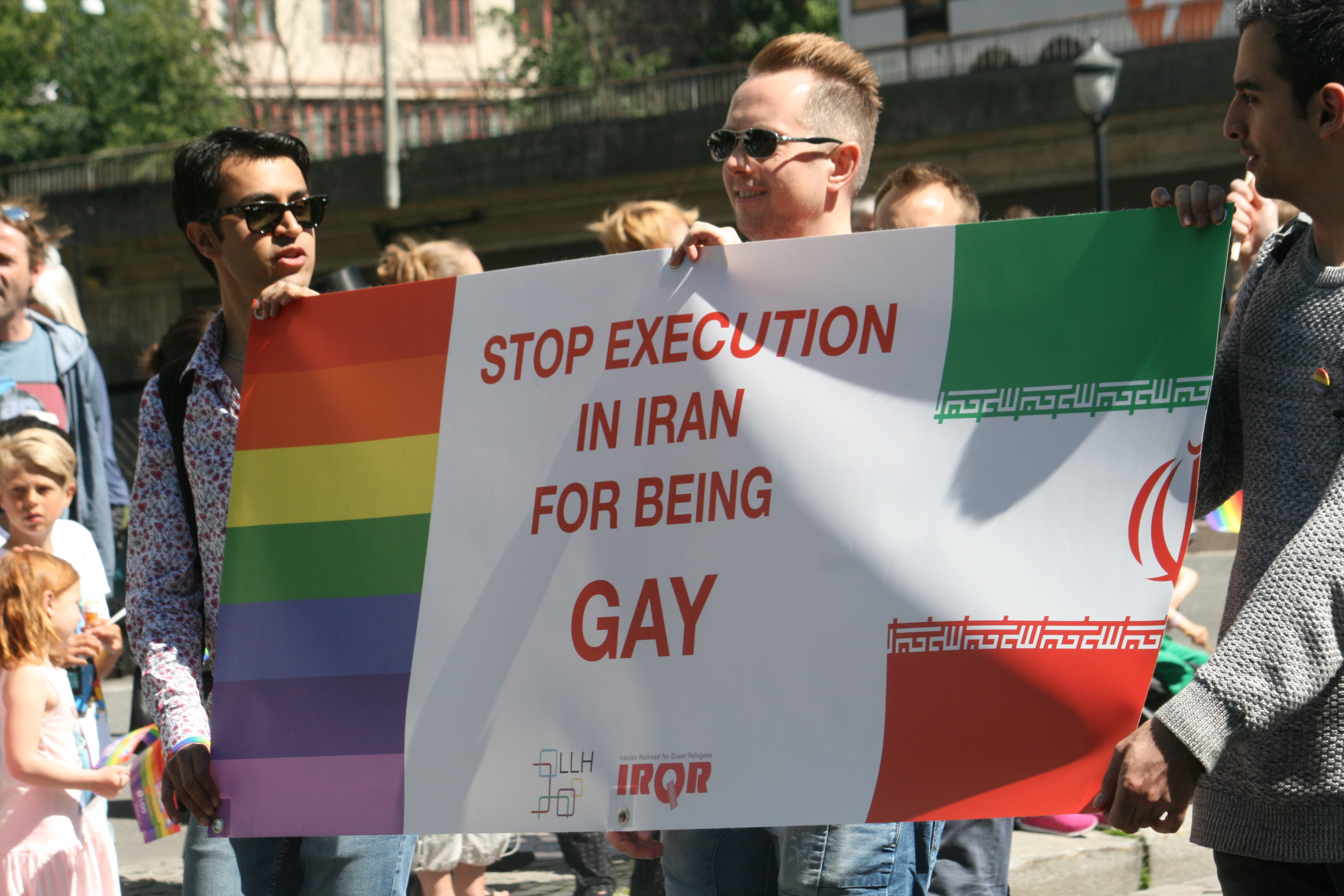 Fra Oslo Pride-paraden 2015 "Stop execution in Iran for being gay"